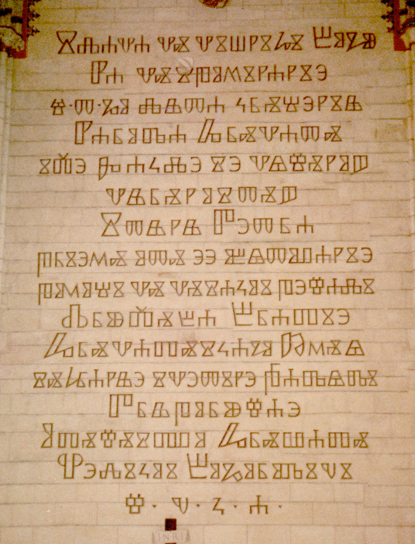 Glagolitic script in the cathedral of Zagreb